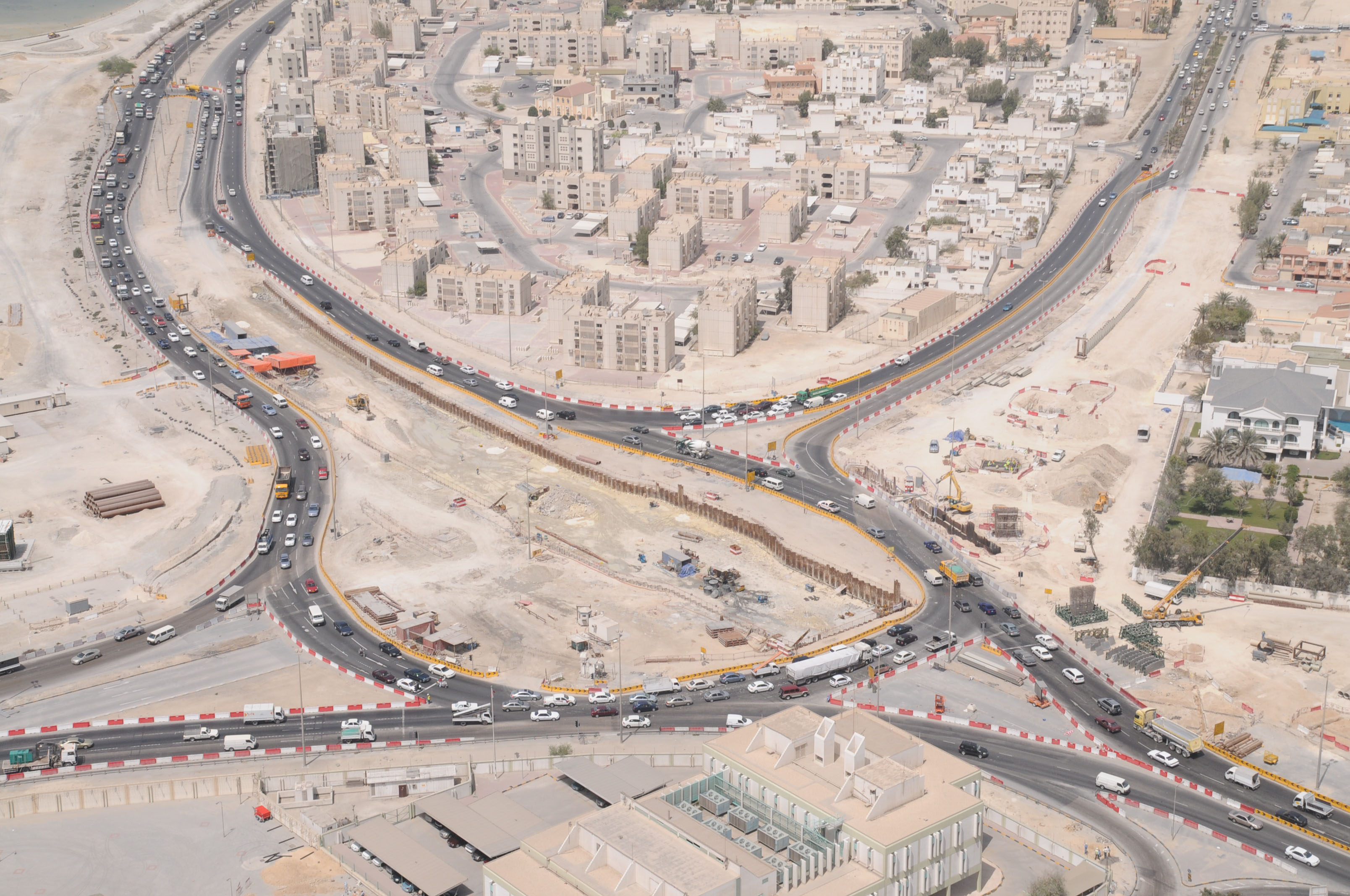 MOW_RD5